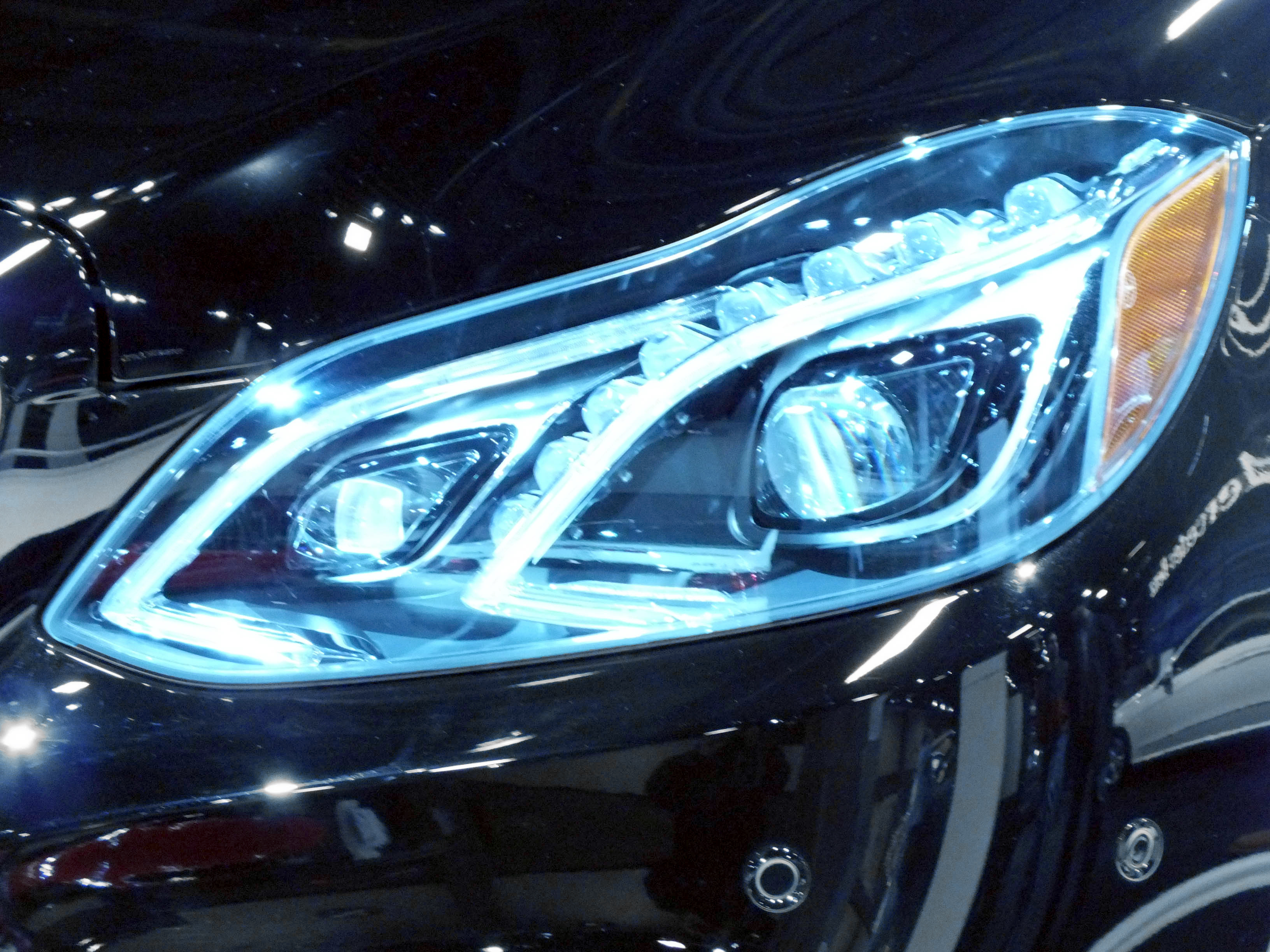 The LED headlights found on the 2014 Mercedes-Benz E-Class. (United States)